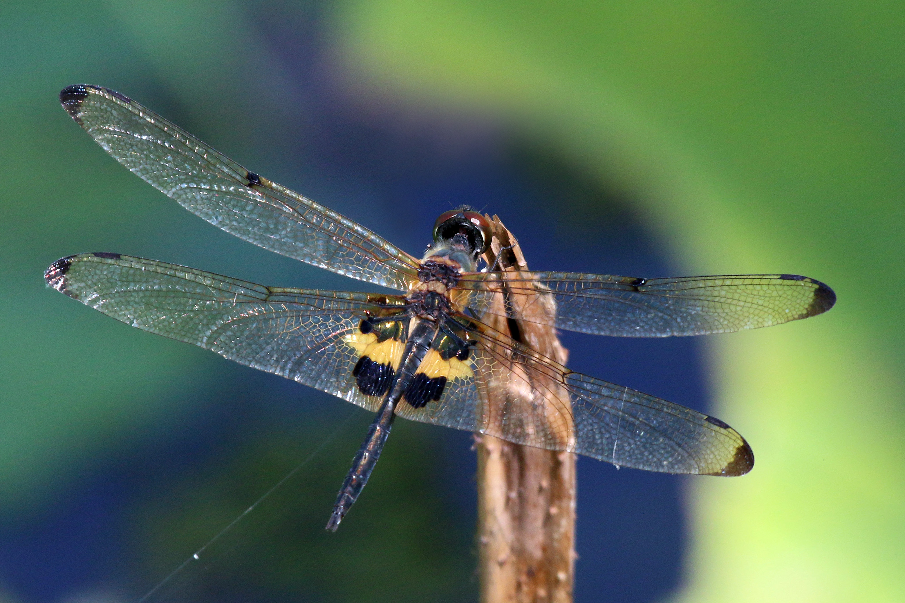 Yellow-barred flutterer (Rhyothemis phyllis phyllis), Pulau Ubin sensory walk, Singapore